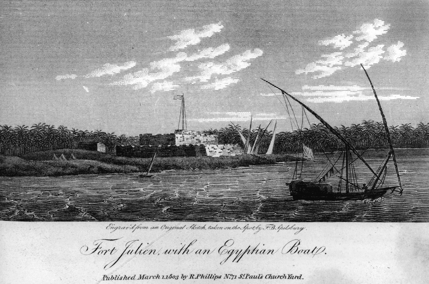 Fort Julien with an Egyptian Boat.